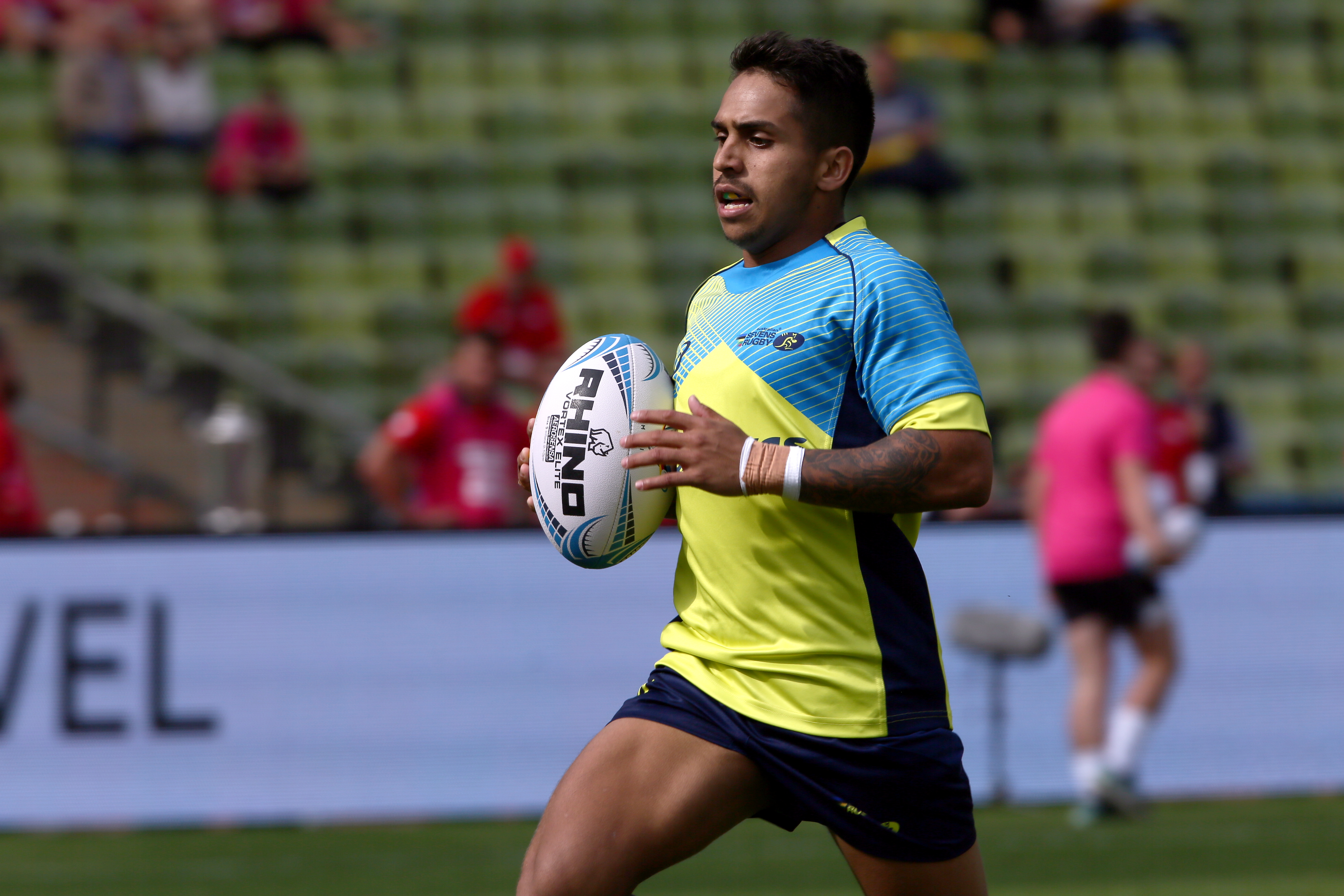 Rugby tournament "Oktoberfest 7s", Munich, 2017-09-29/30 at the Olympic stadion of Munich.